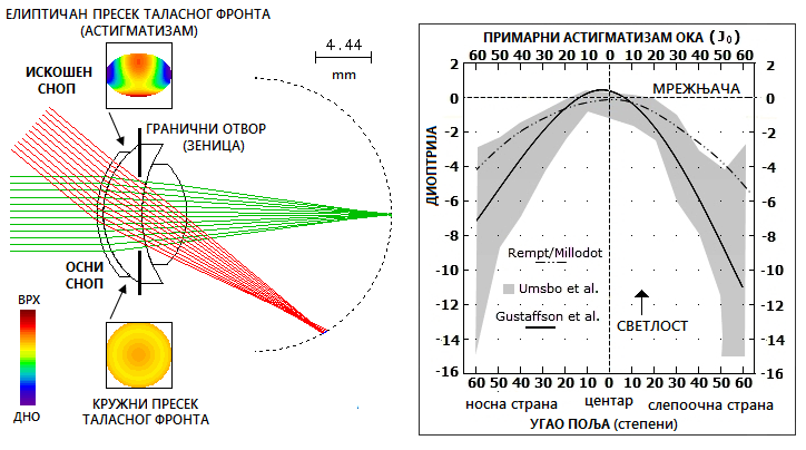 АСТИГМАТИЗАМ ОКА